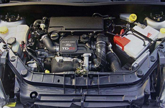 TDCI Engine of Ford Fusion